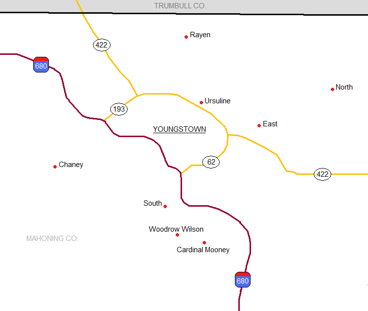 Map showing the former 8 members of the Youngstown City Series.